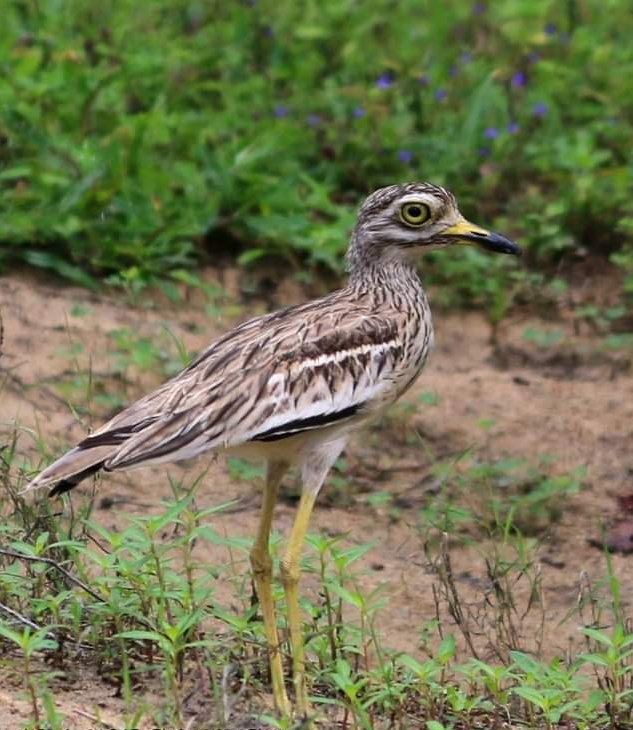 Indian thick knee